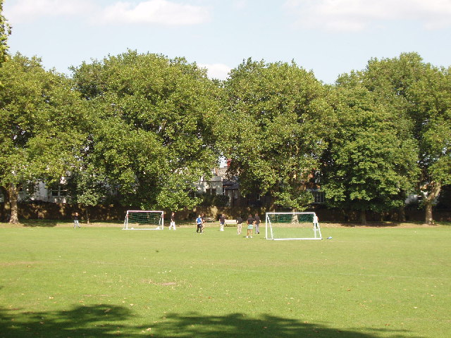 South Park, Fulham. A small park used by local residents.